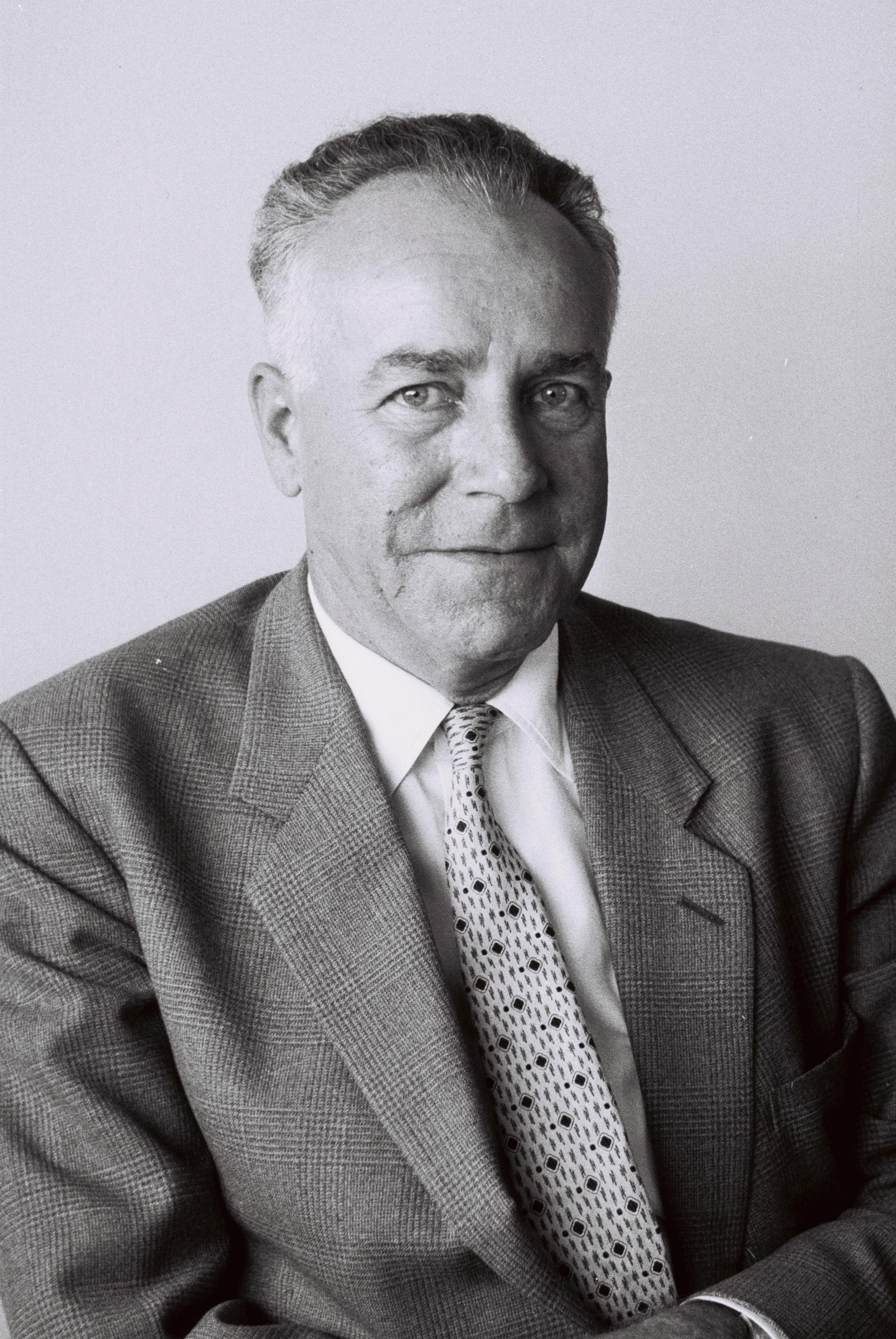 General Yoseph Avidar as he was appointed the new Israeli ambassador to Argentina